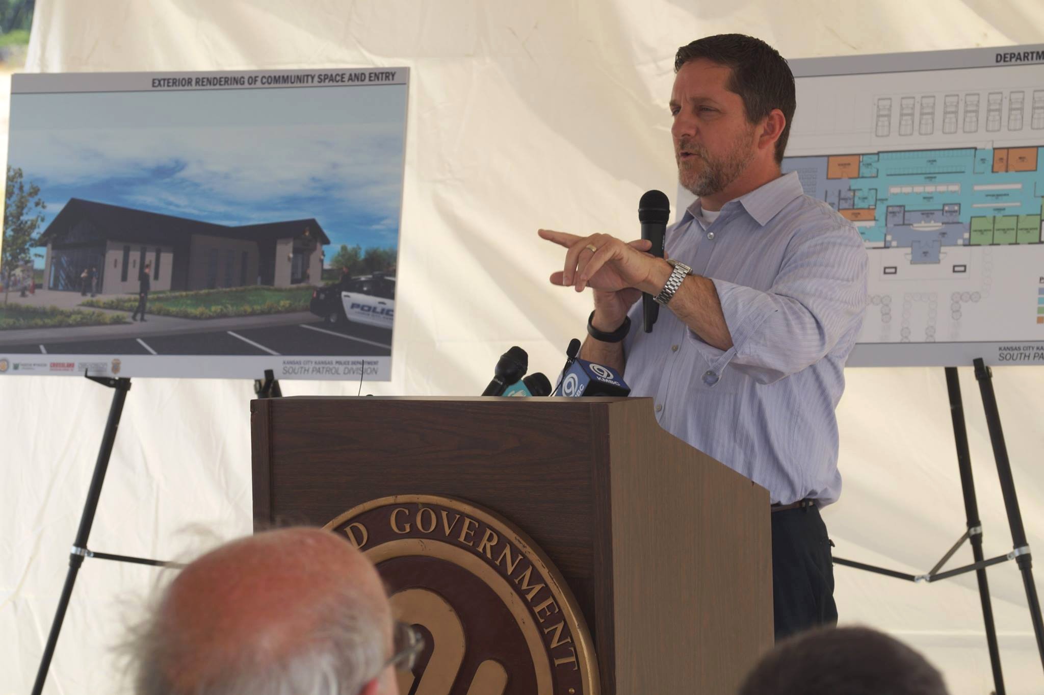 Mayor Mark Holland presenting